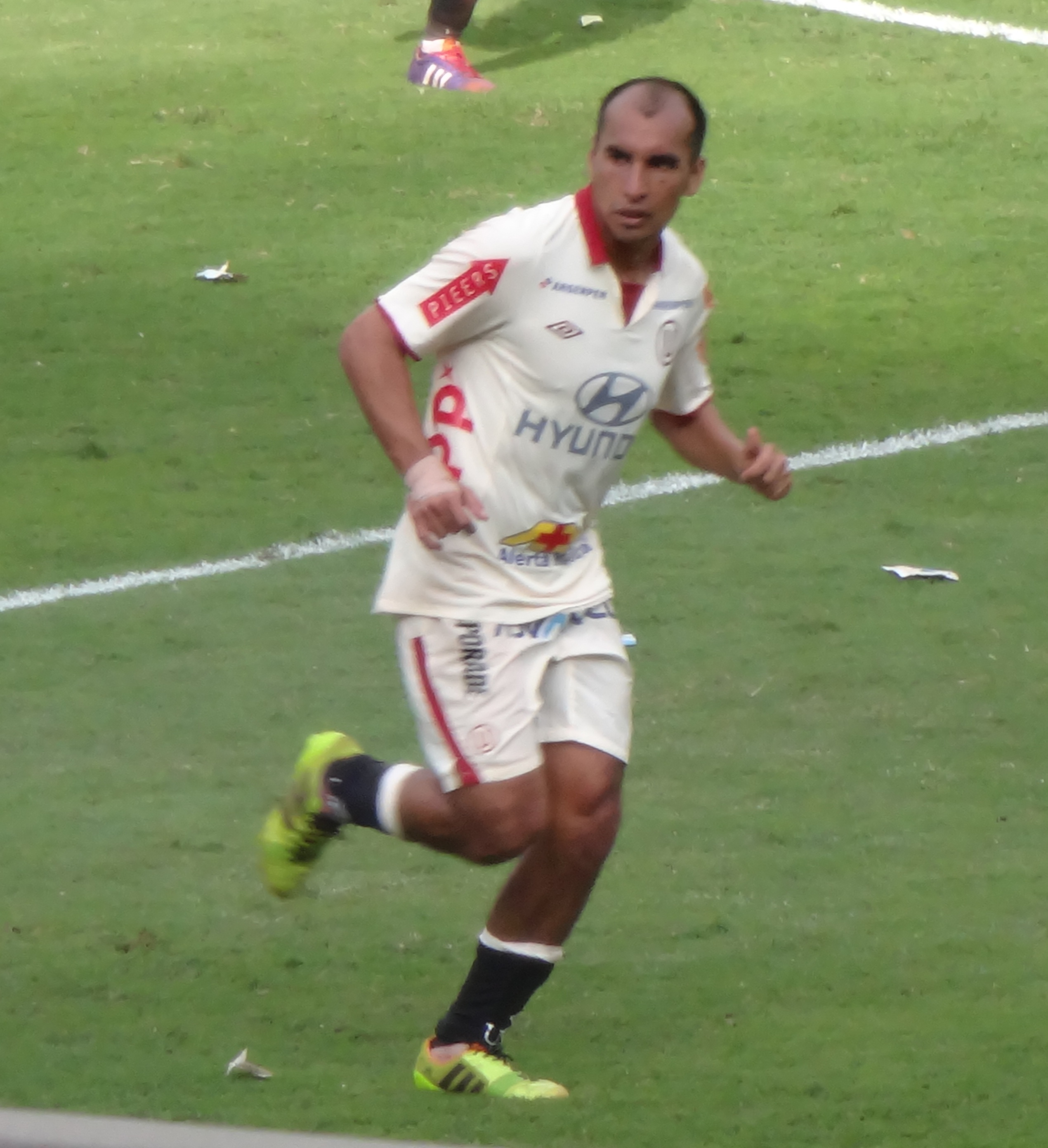 Rainer Torres (Lima, 1980), peruvian footballer. 2nd. playoff 2013.